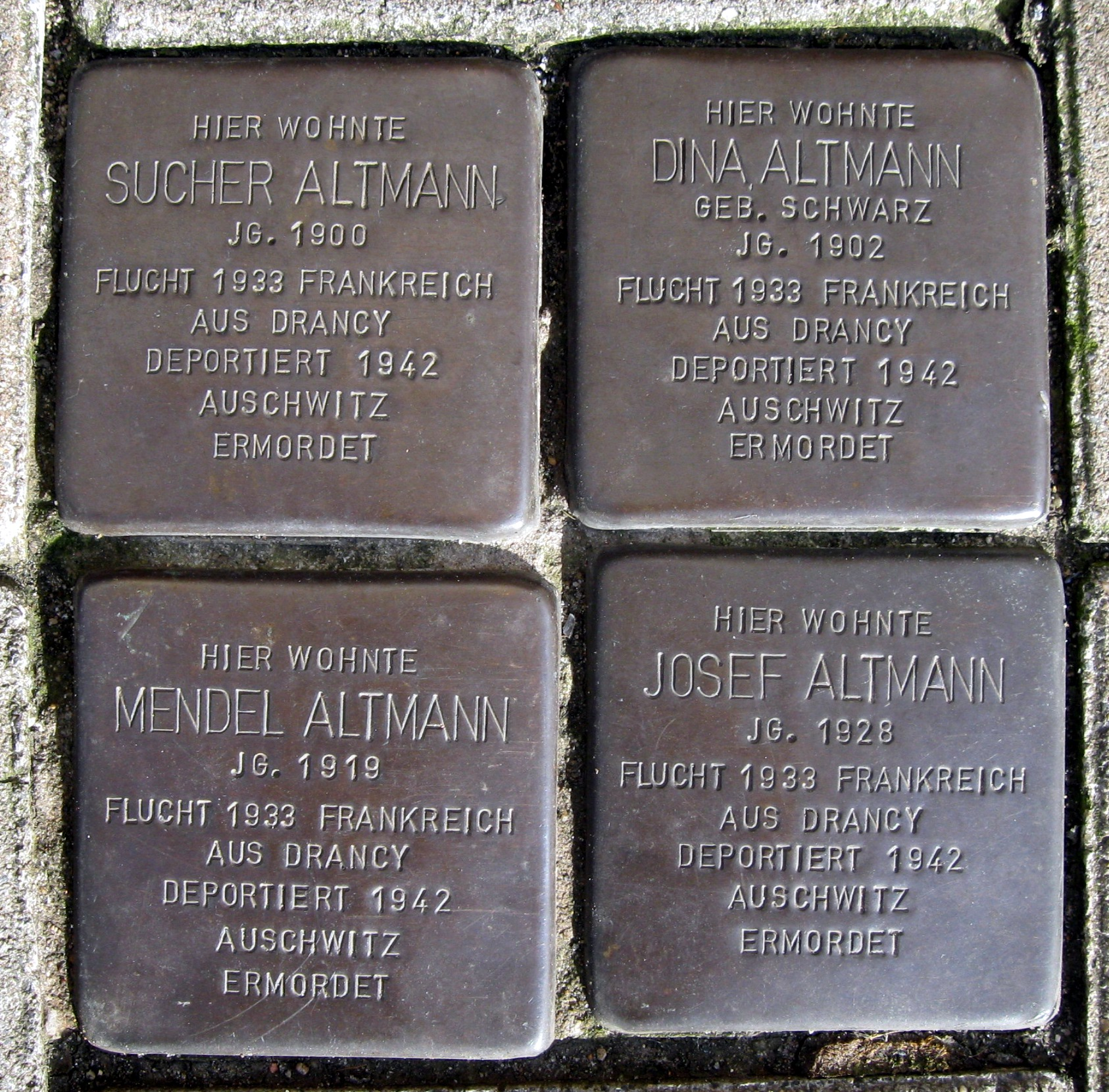 Stolpersteine at house Gneisenaustraße 91 in Dortmund, Germany